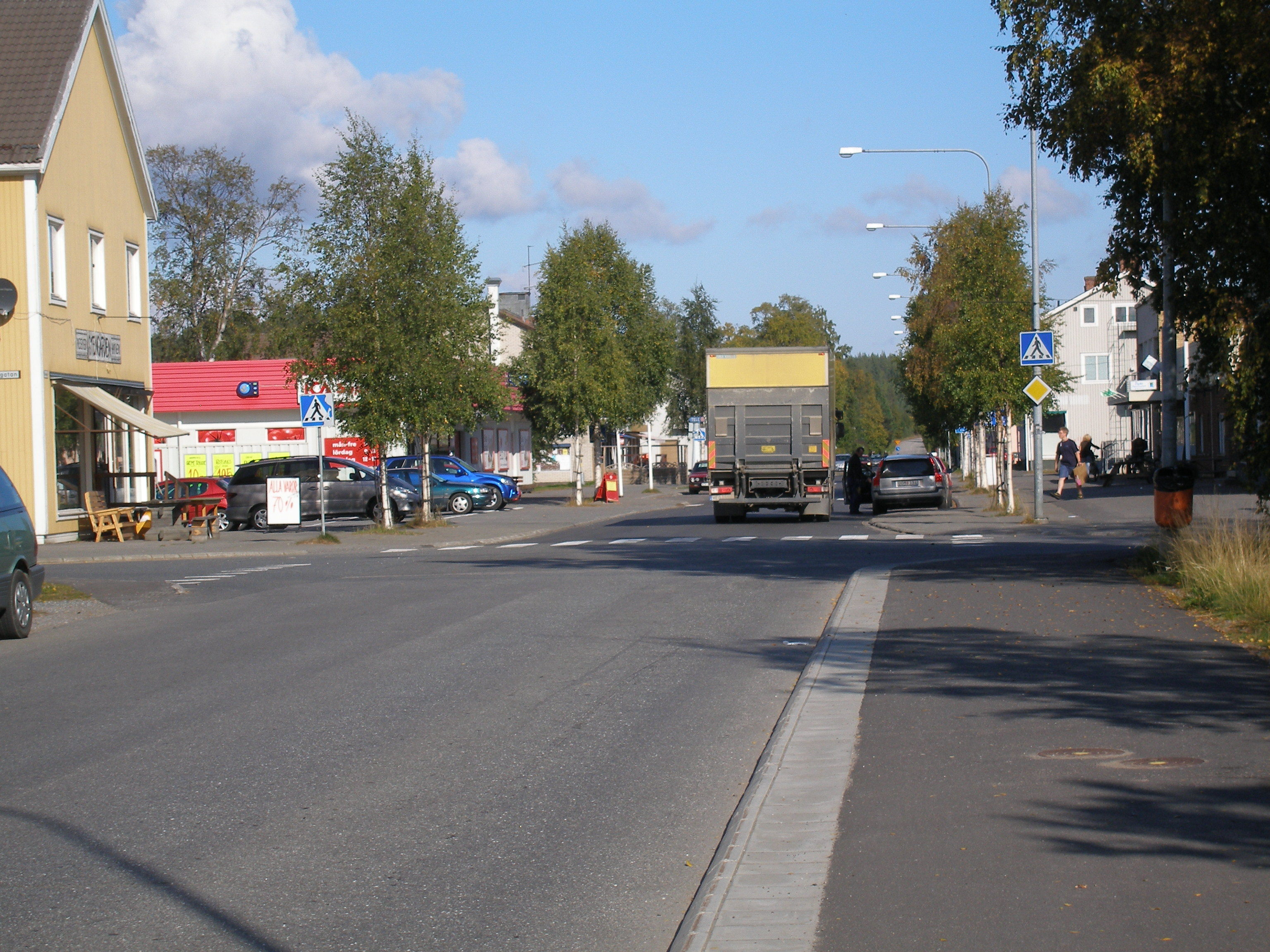 Storgatan (main street) in Byske, Sweden. A view to the north.